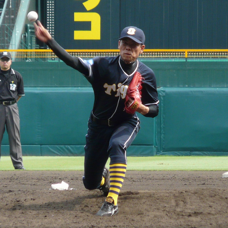 HT-Kenta-Abe20110609